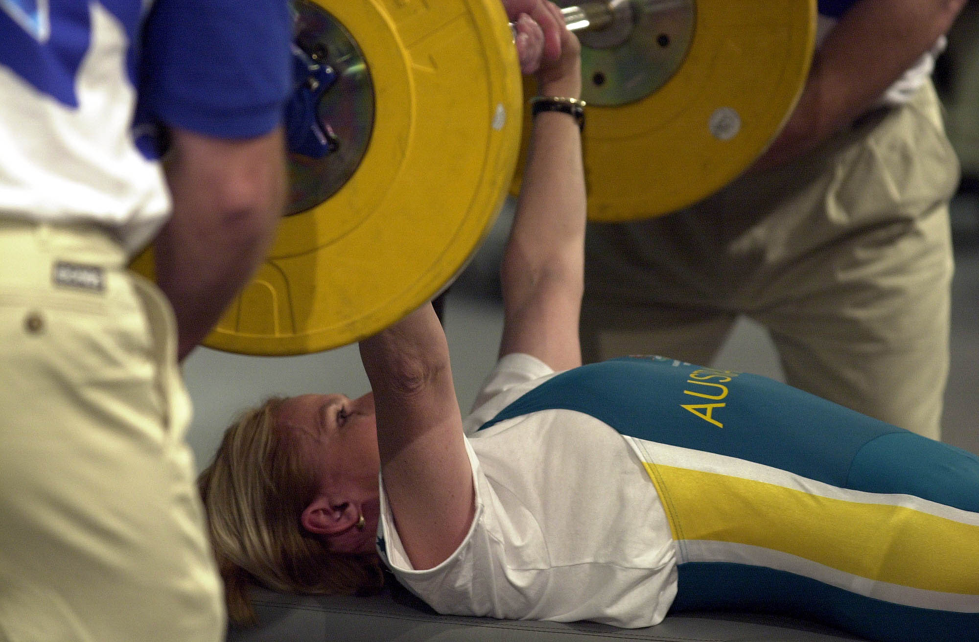 Australian powerlifter Suzanne Twelftree during 2000 Sydney Paralympic Games competition, 48kg category